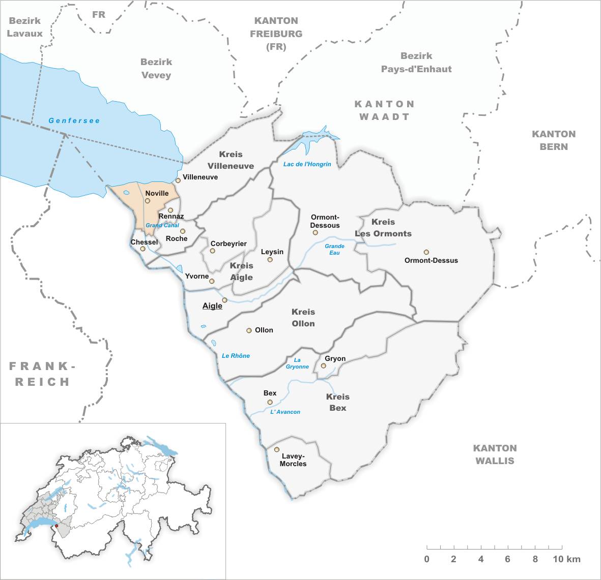 Municipality Noville